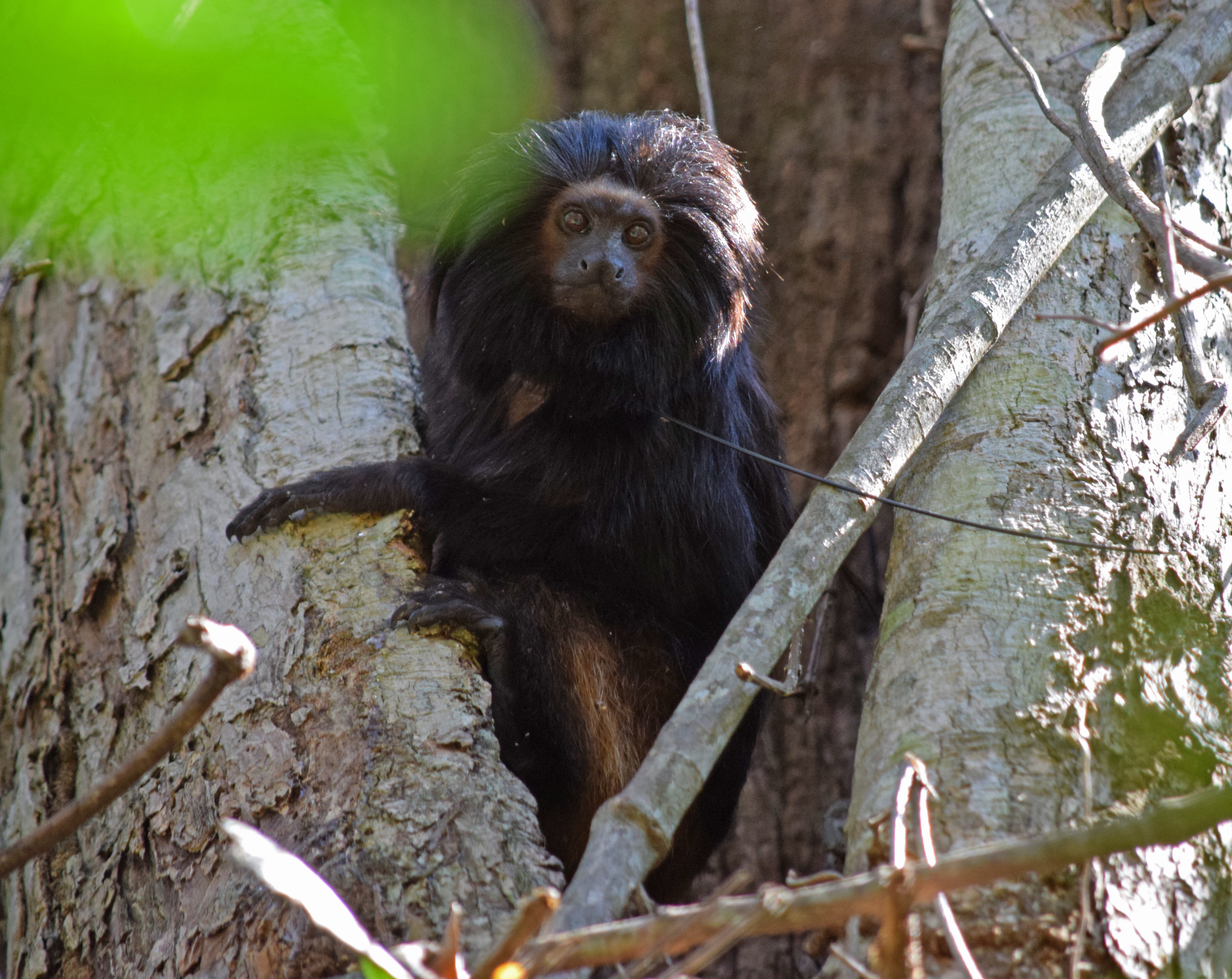 Black lion tamarin in a semidecidous forest remant in Teodoro Sampaio, São Paulo State, Brazil. Santa Mônica Farm.